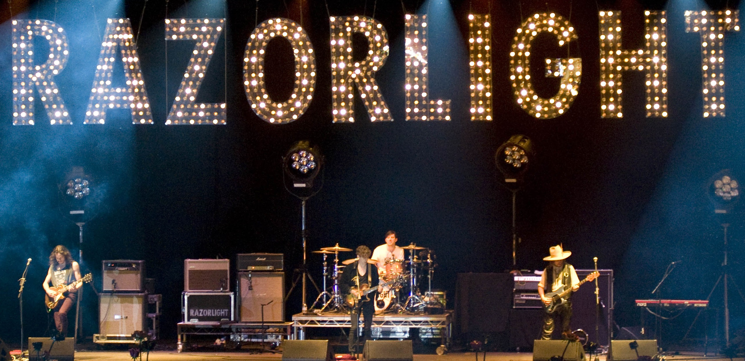 Razorlight live at Guildfest